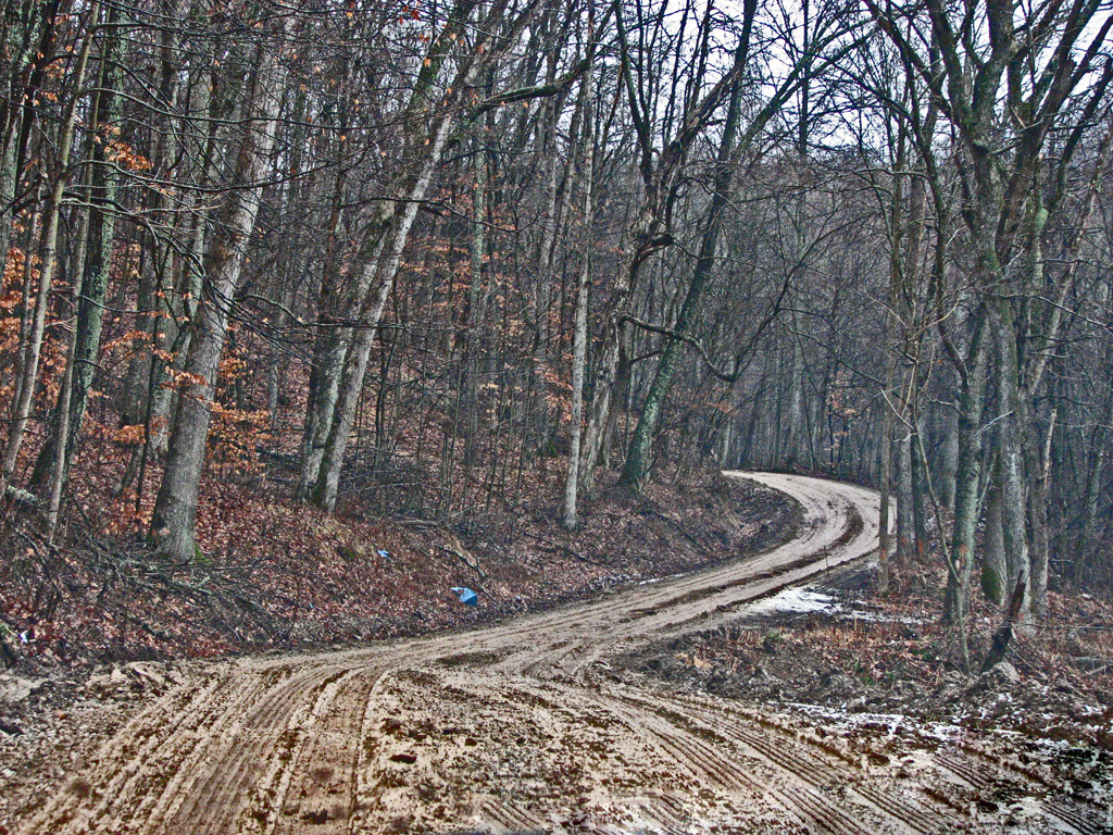 Looking southward along White Oak Hill Road in winter. Photo taken from the northern end of the road, located in northwestern Sunfish Township, Pike County, Ohio, United States.